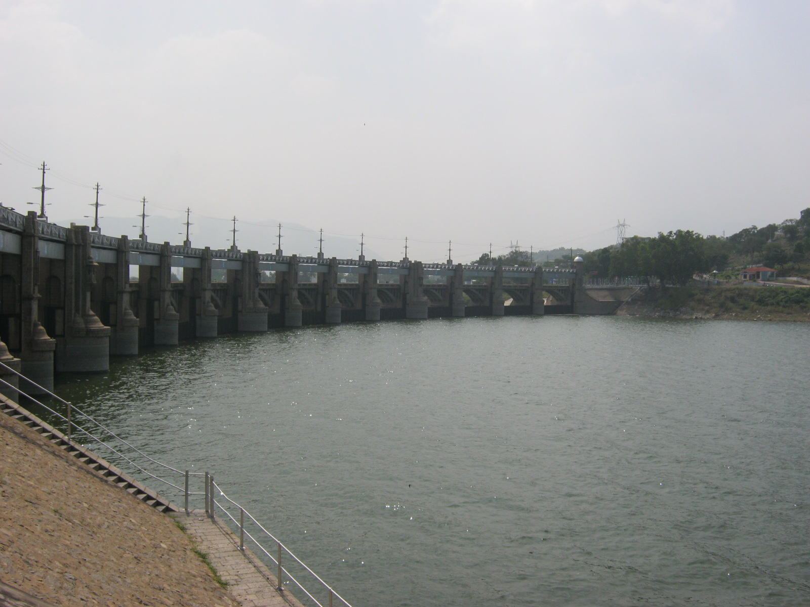 These 16 gates are used release water from Mettur dam it s one of the 3 main water Sluices these are also called as ELLIS SURPLUS SLUICES.